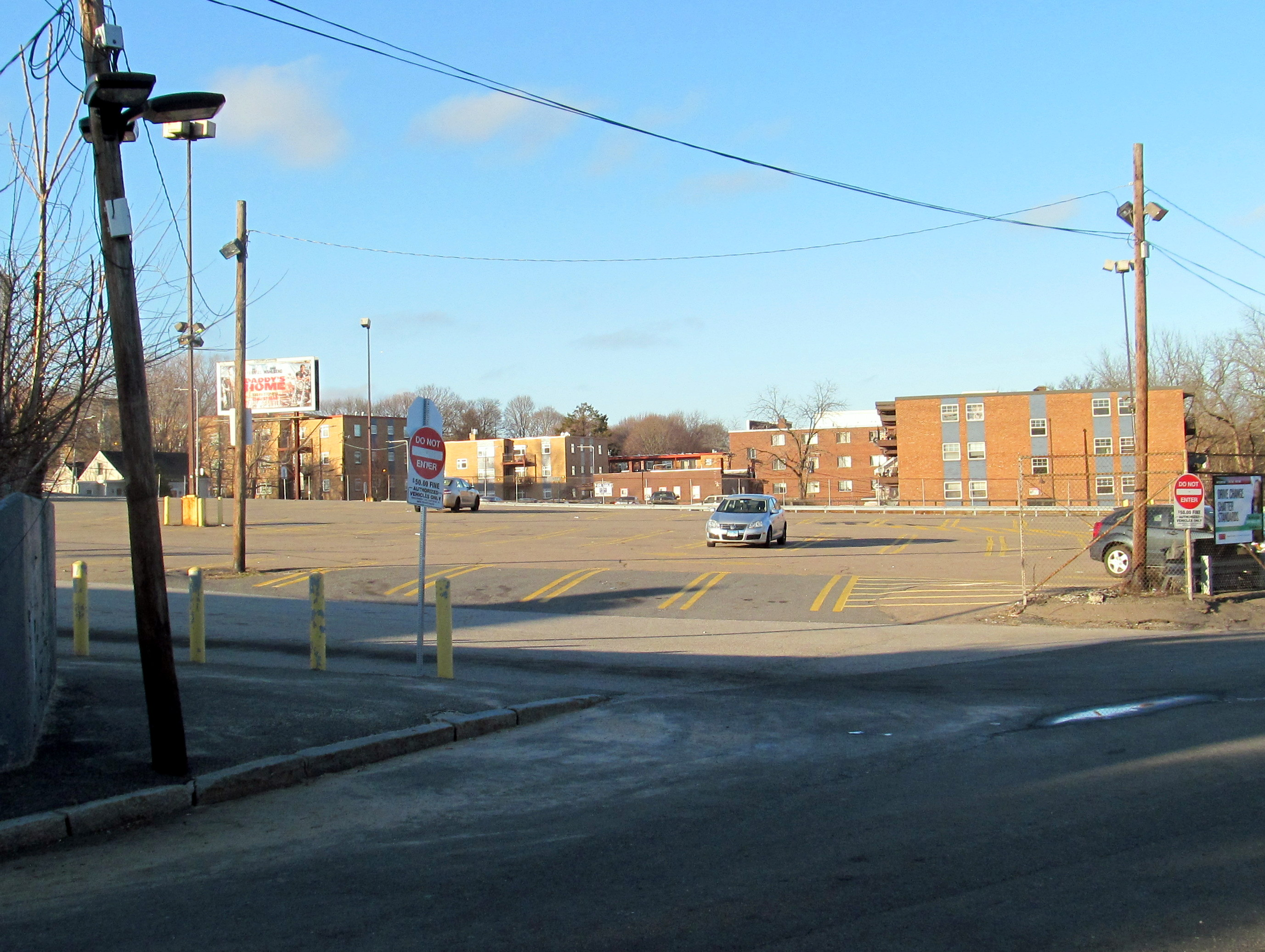 Parking lot at Mattapan station, planned to be the site of transit-oriented development, in March 2016